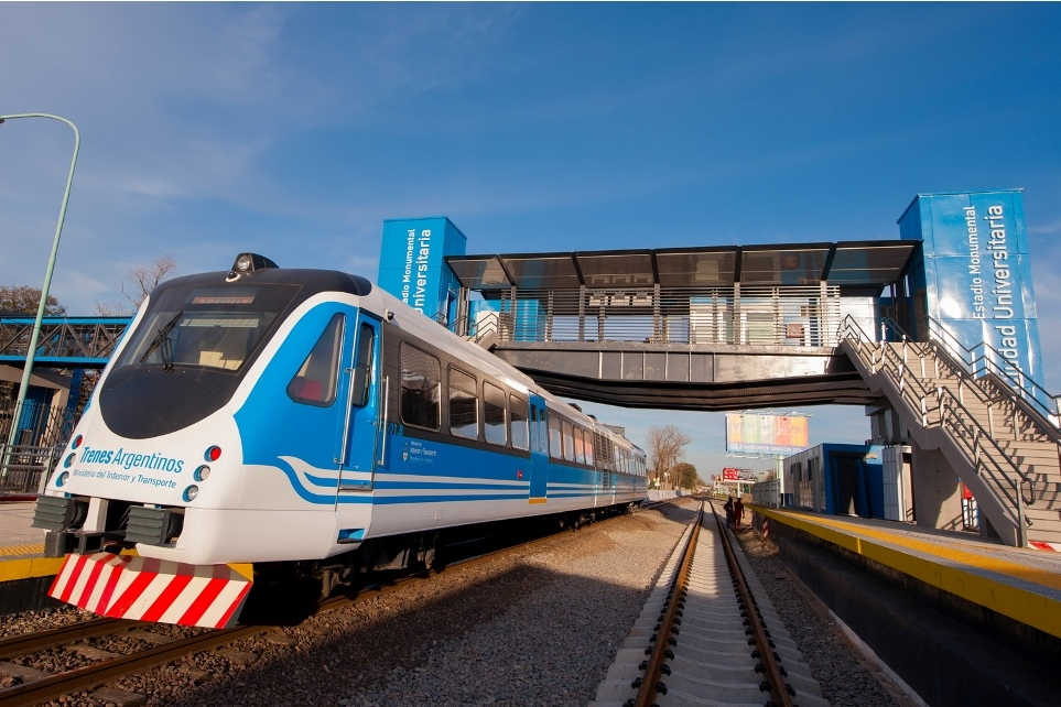 Ciudad Universitaria train station of Belgrano Norte Line, with an "Alerce" dmu by Emepa running along its platforms.